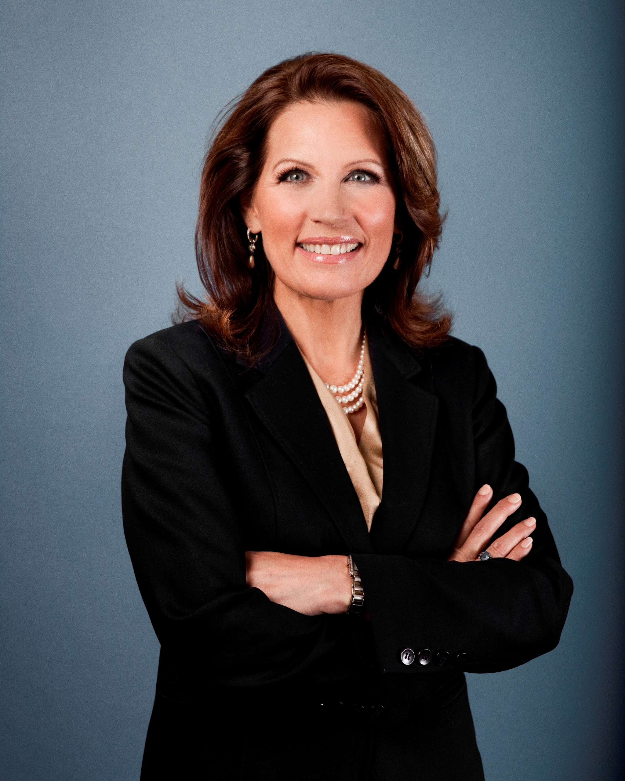 Official photo of Congresswoman Michele Bachmann (R-MN)